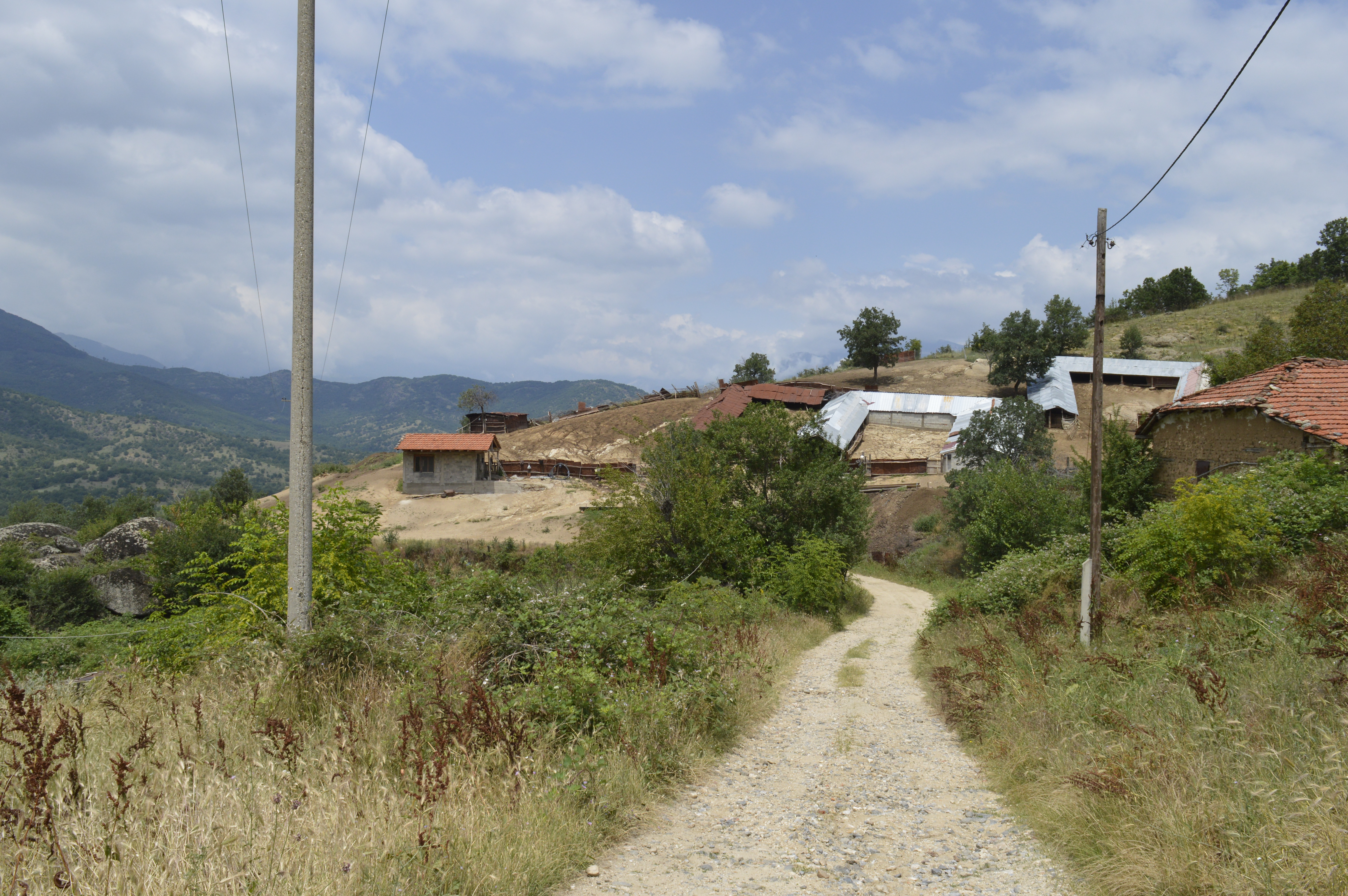 Sheepfolds in the village Oraov Dol